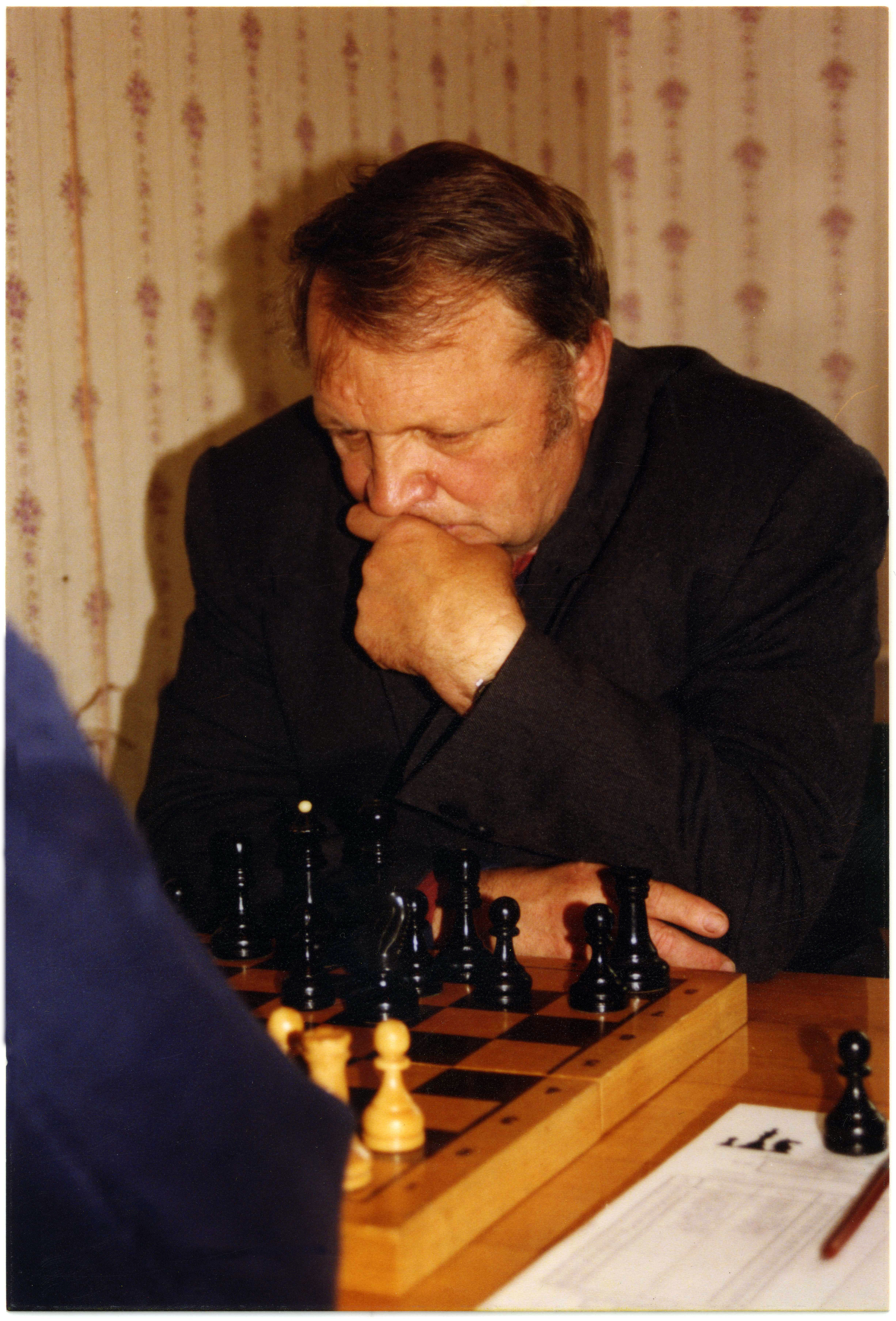 Yury Fyodorovich Shabanov